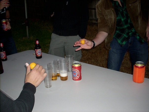 A few people playing the drinking game Jayred.